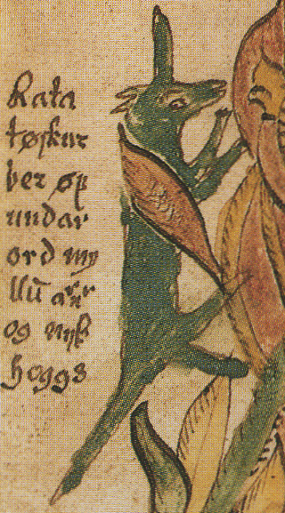 Ratatoskr in Yggdrasill. The text by the animal reads "Rata / tøskur / ber øf / undar / ord my / llū arnr / og nyd / hoggs". From the en:17th century Icelandic manuscript AM 738 4to, now in the care of the Árni Magnússon Institute in Iceland.